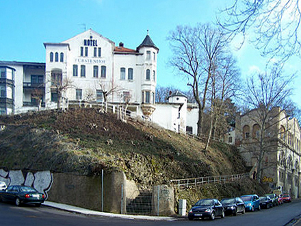 The Fürstenhof - a former first class hotel in Eisenach.